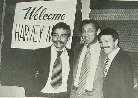 Don Amador, with his husband Tony Karnes (on the left) and Harvey Milk